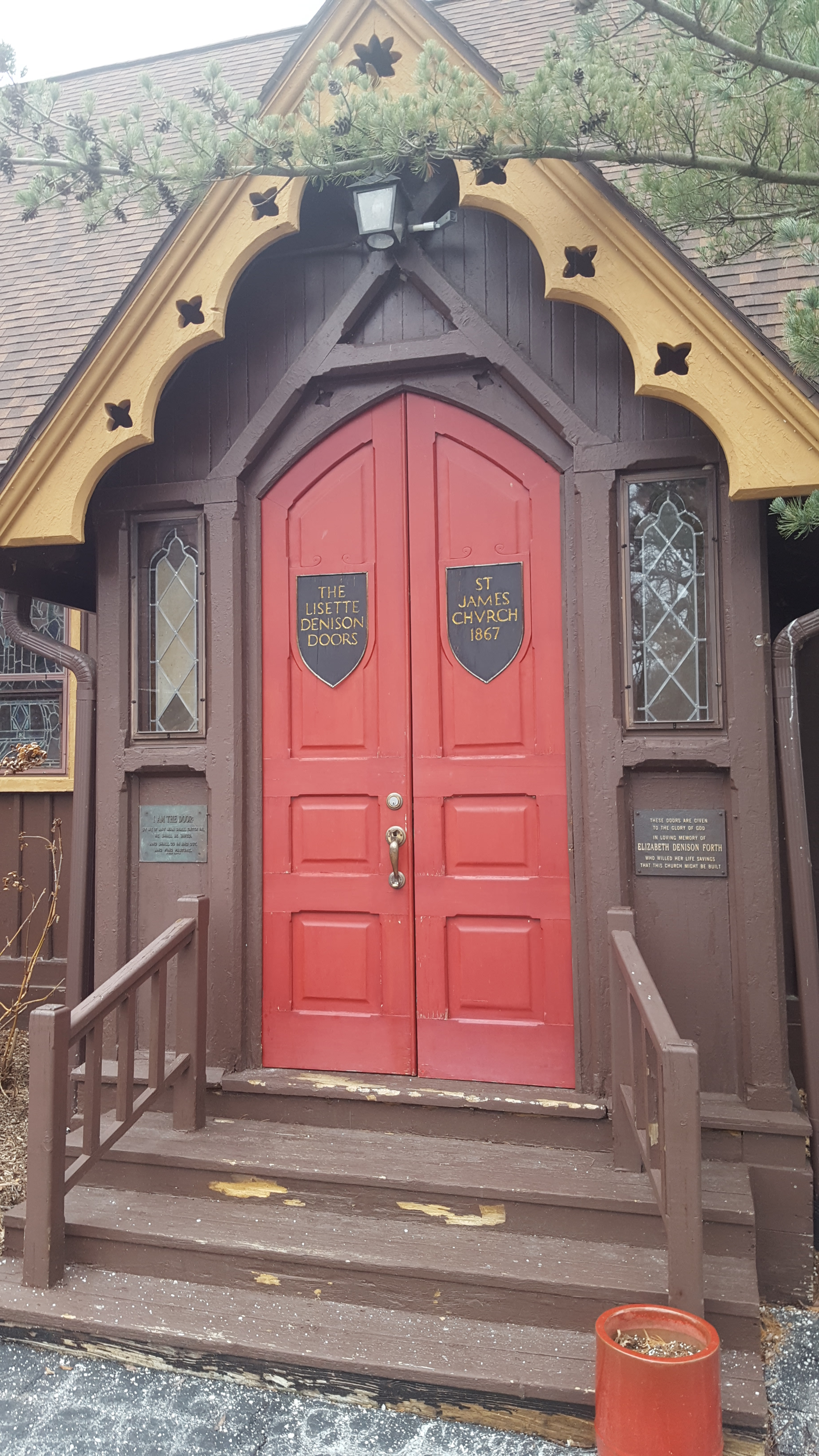 Memorial door, St. James Episcopal Church (Grosse Ile, Michigan)